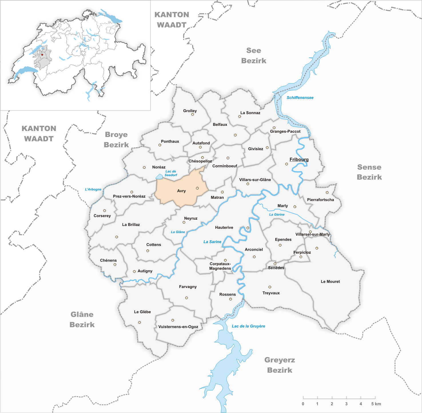 Municipality Avry